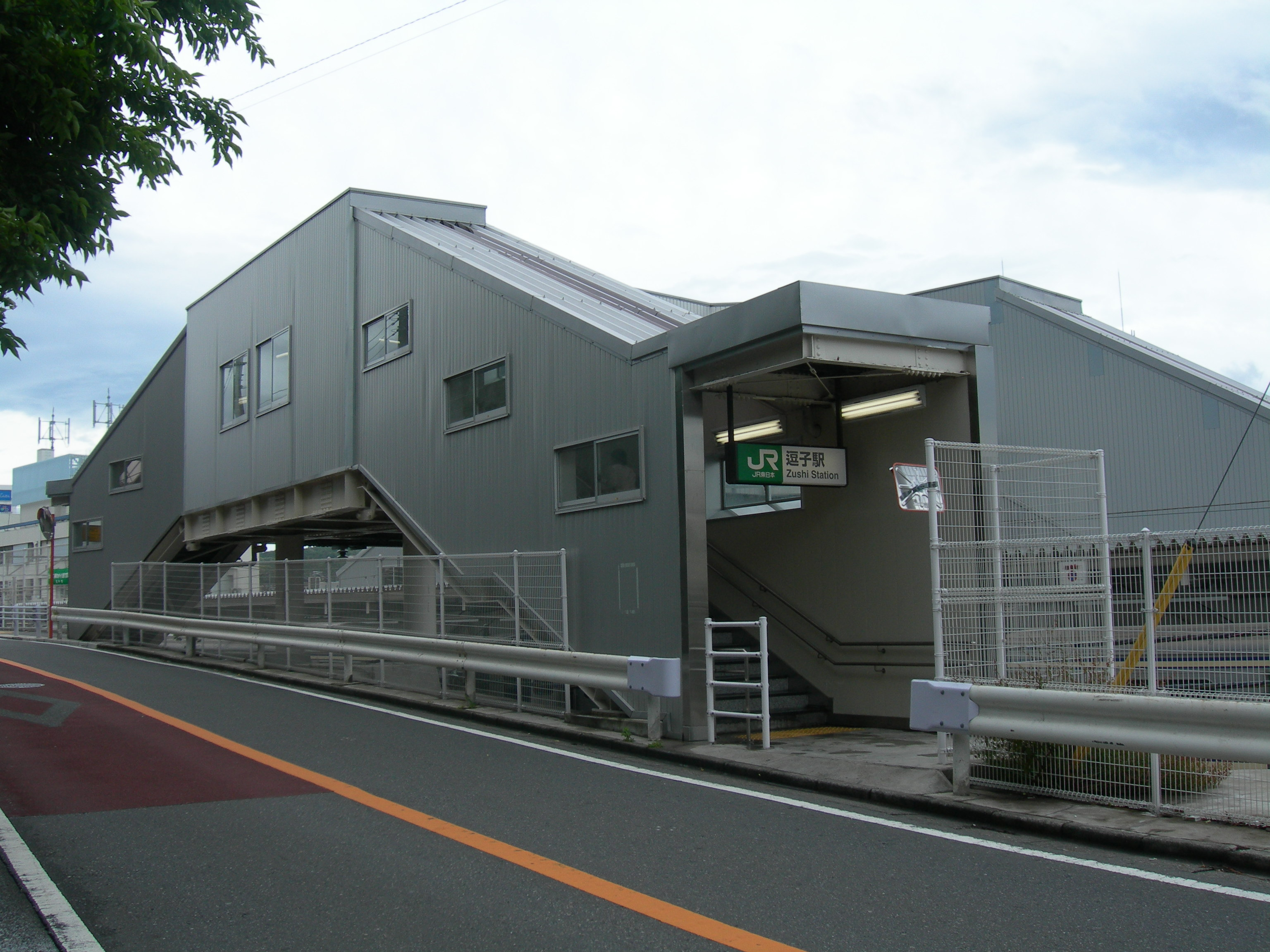 The west entrance on the north side of Zushi Station